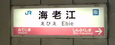 JR Ebie Station (person of photography:Nozomikobe/18 Sep,2005)